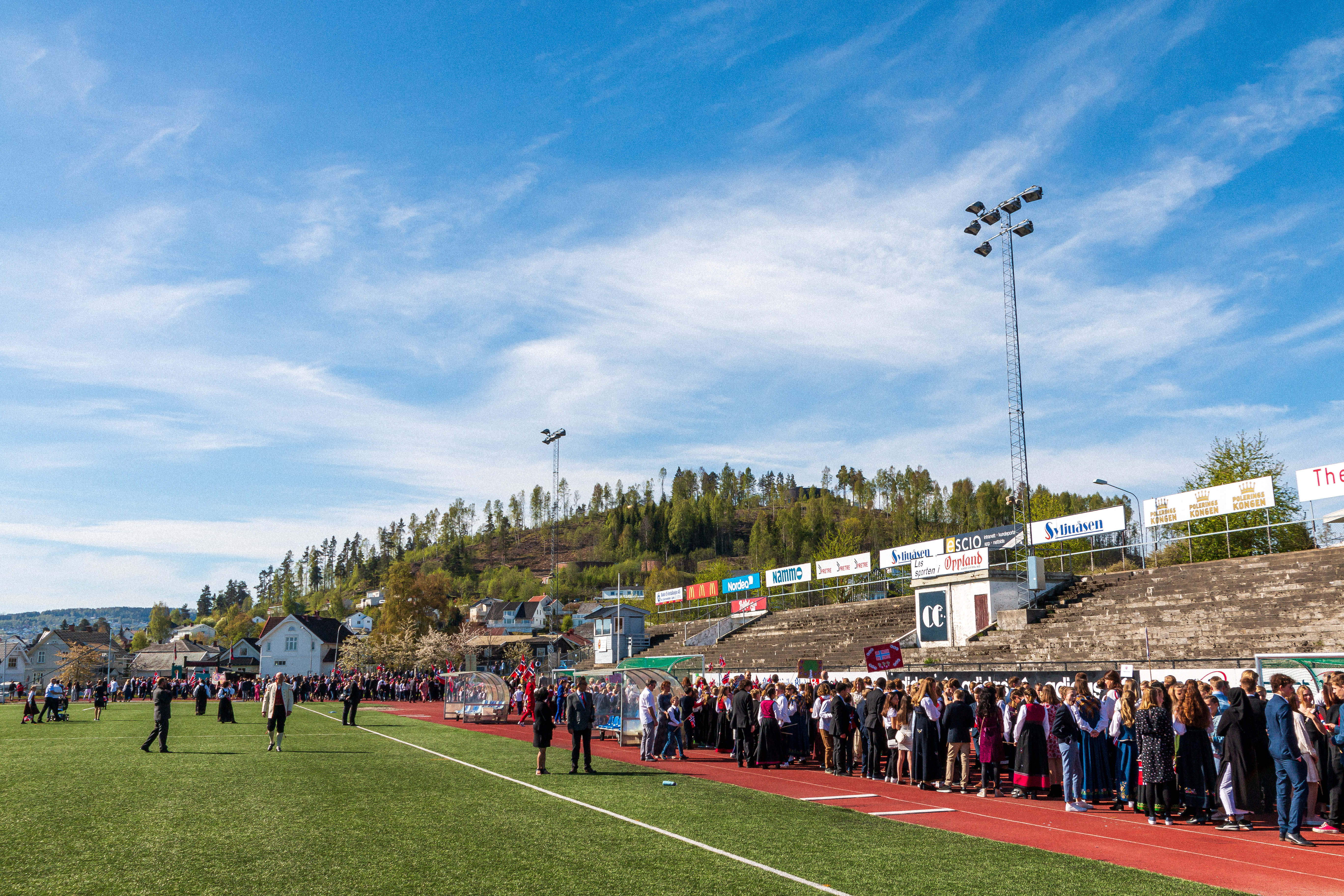 May 17 at Gjøvik stadion with Hovdetoppen Hill in background clearcutted.